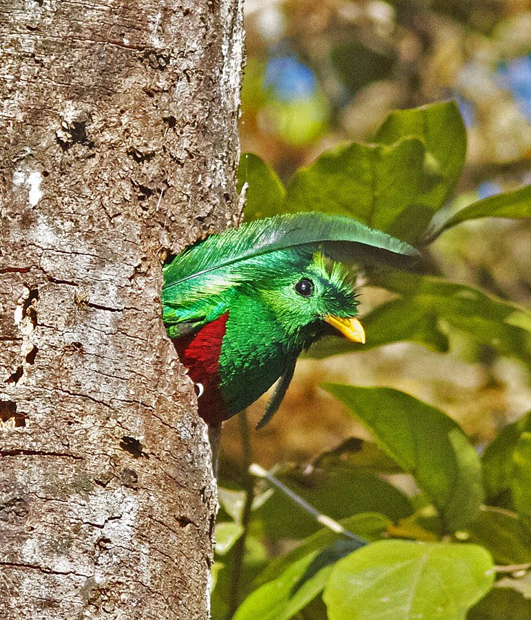 Resplendent Quetzal photo taken at taken at Savegre Mountain Hotel, Costa Rica.